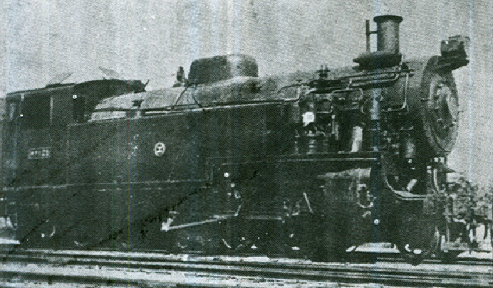 Steam locomotive Satai21 of the Chosen Government Railway at delivery in 1939.